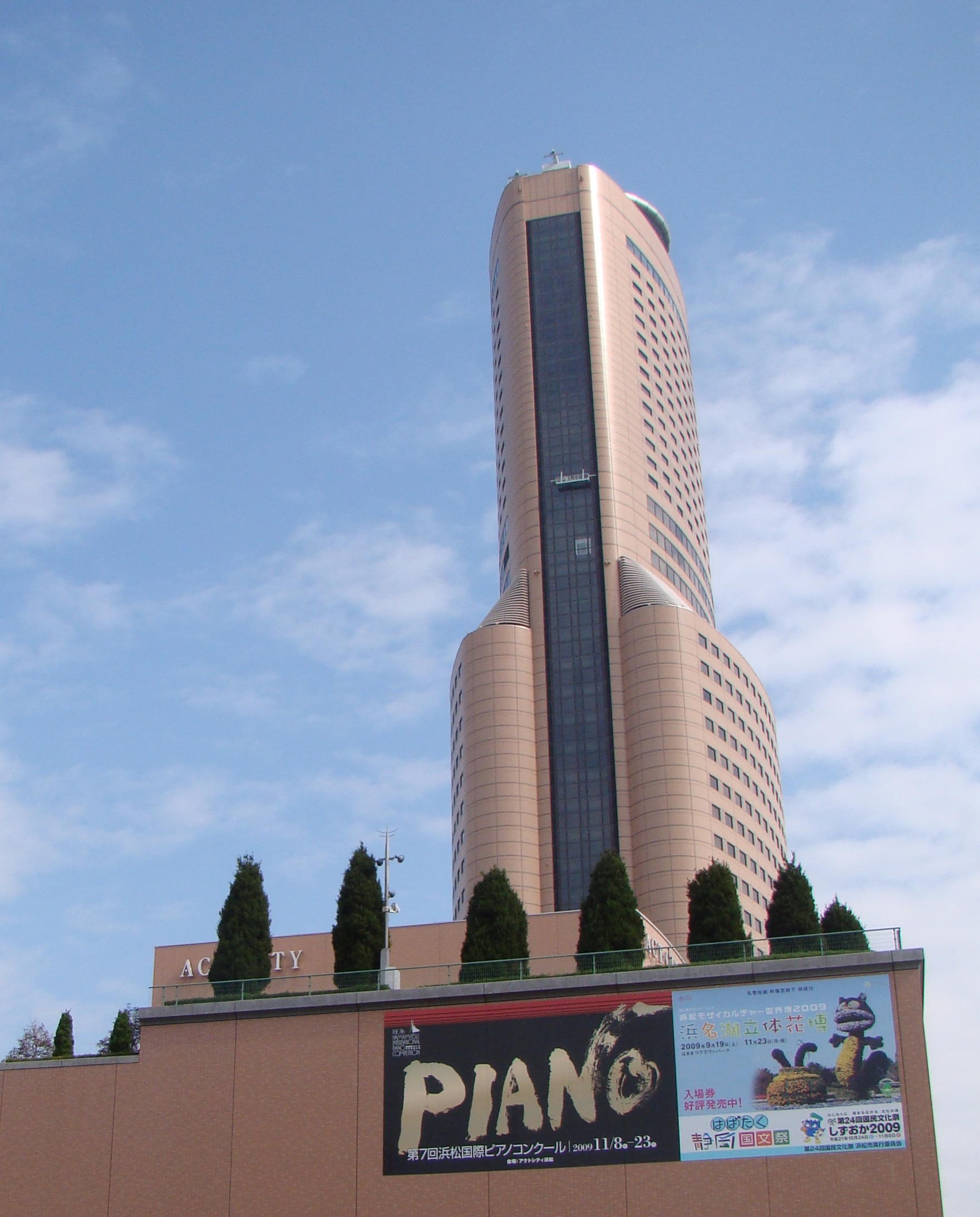 Hamamatsu international piano competition in Actcity Hamamatsu